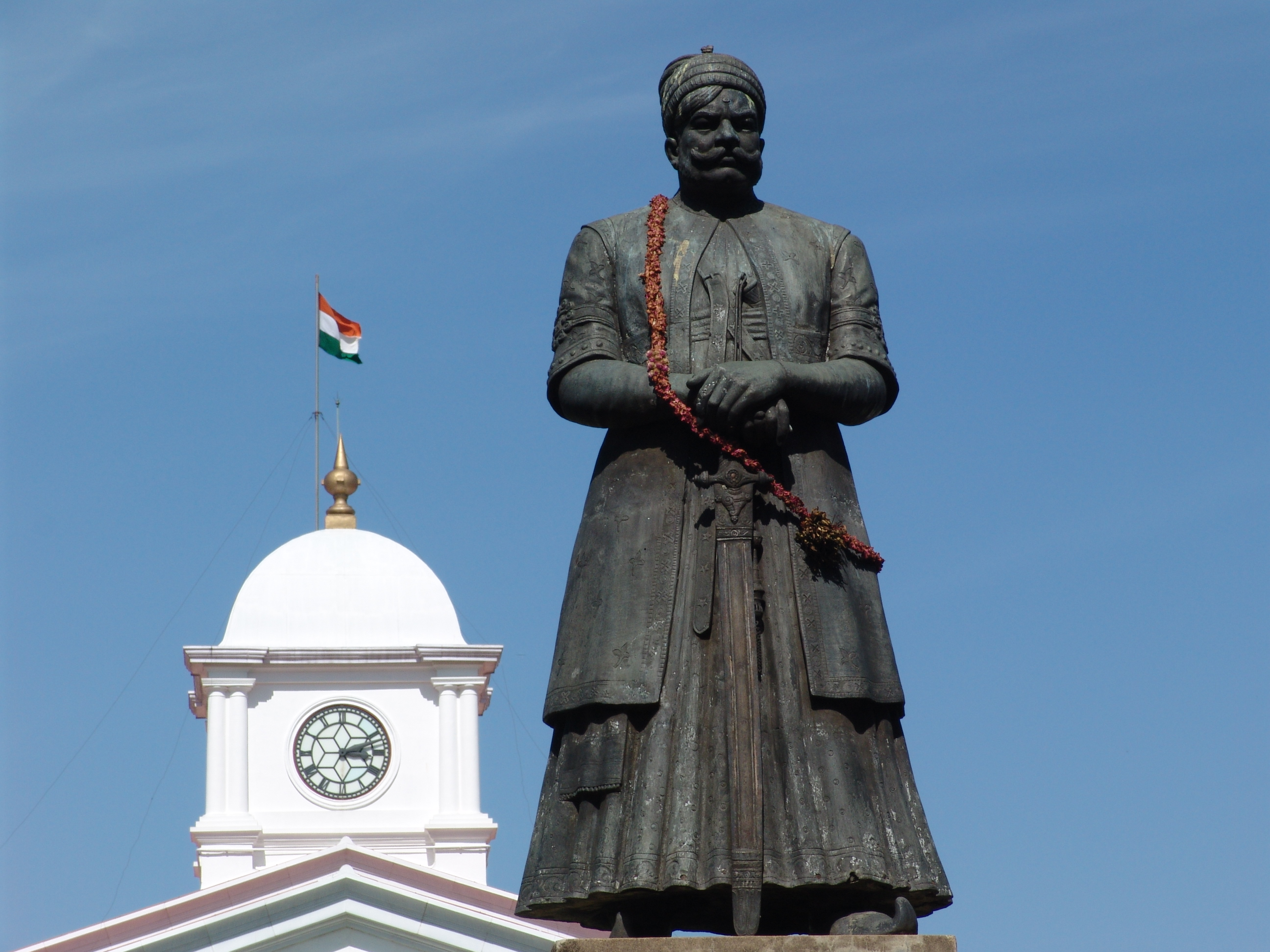 Sculpture of Velu Thampi Dalawa in the Secretariat campus, Thiruvananthapuram.